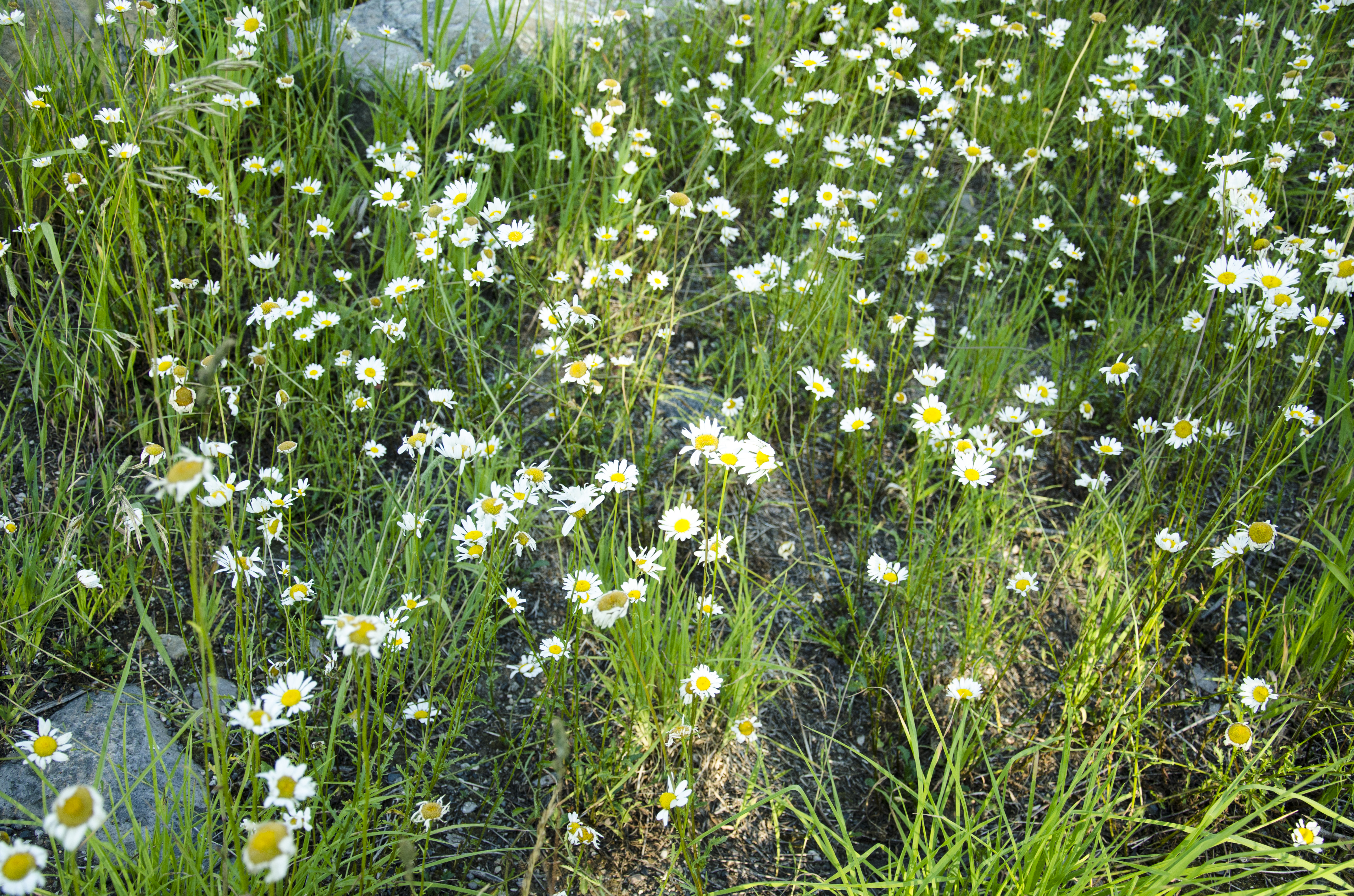 Oxeye Daisy plants near Hylite Canyon. Bozeman, MT. July 2013.